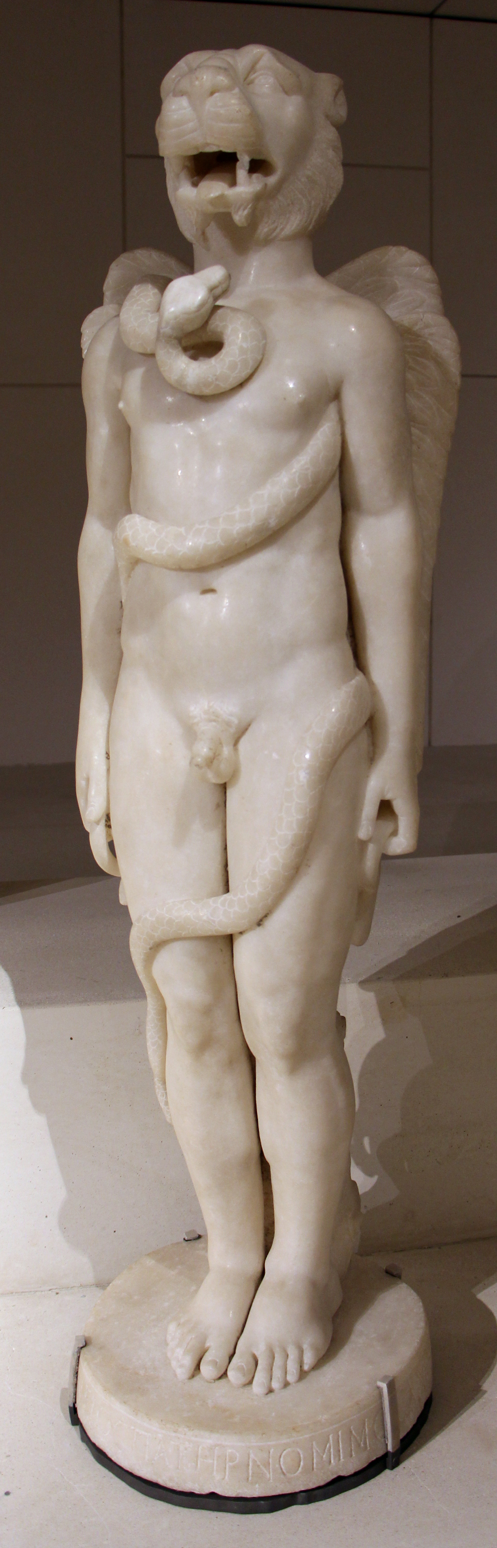 East Mediterranean in the Roman Empire antiquities in the Louvre